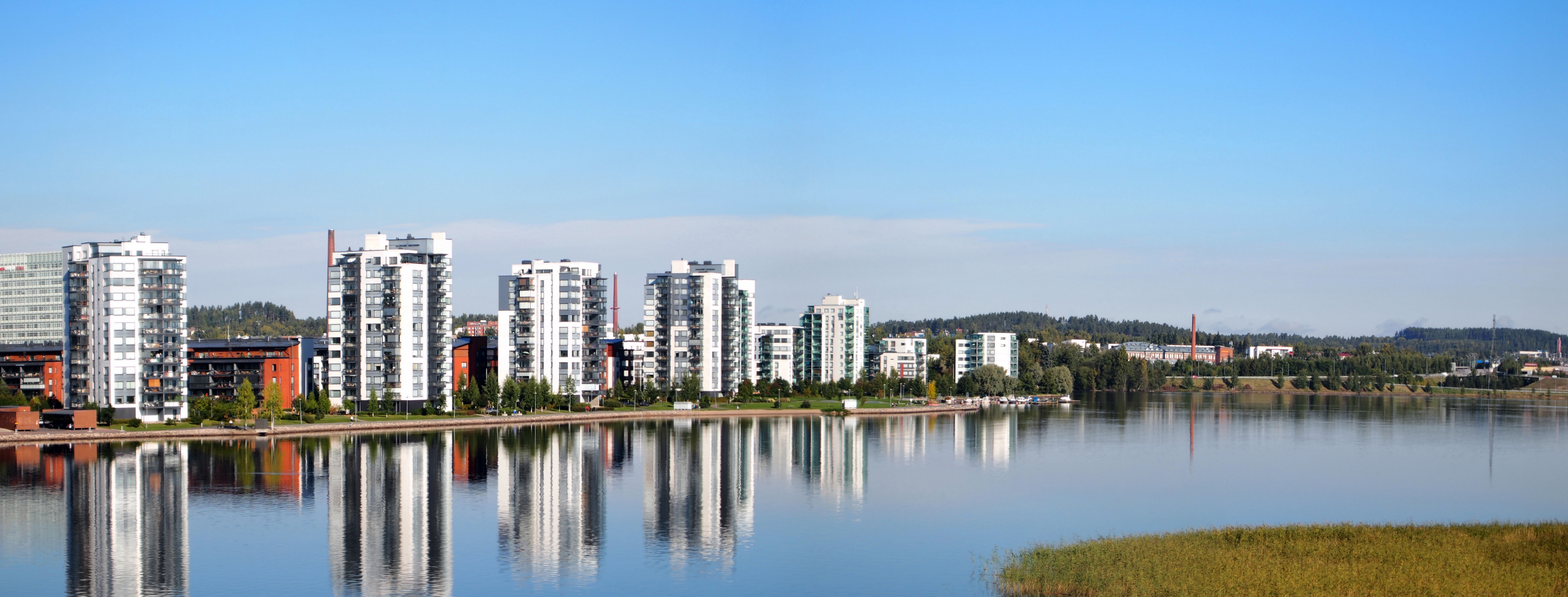 View from Kuokkala Bridge to Lutakko district, Jyväskylä. This photograph was taken with an Olympus E-PL1